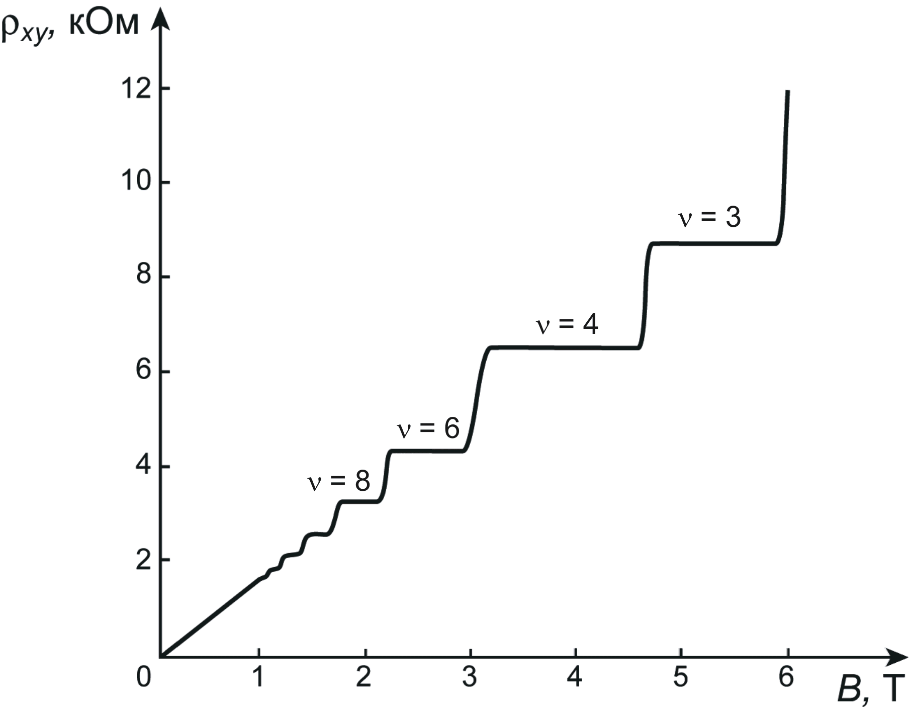 Quantum Hall Effect with filling factors.